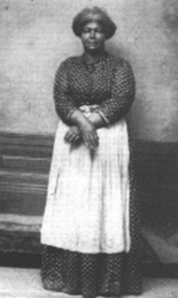 Nineteenth century photo of an African-American woman.